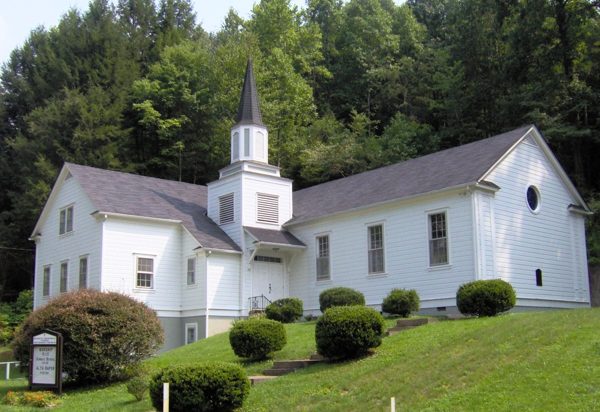 Burnett Memorial Chapel in Pittman Center, Tennessee. The church is named after the founder of the Pittman School, John Burnett.